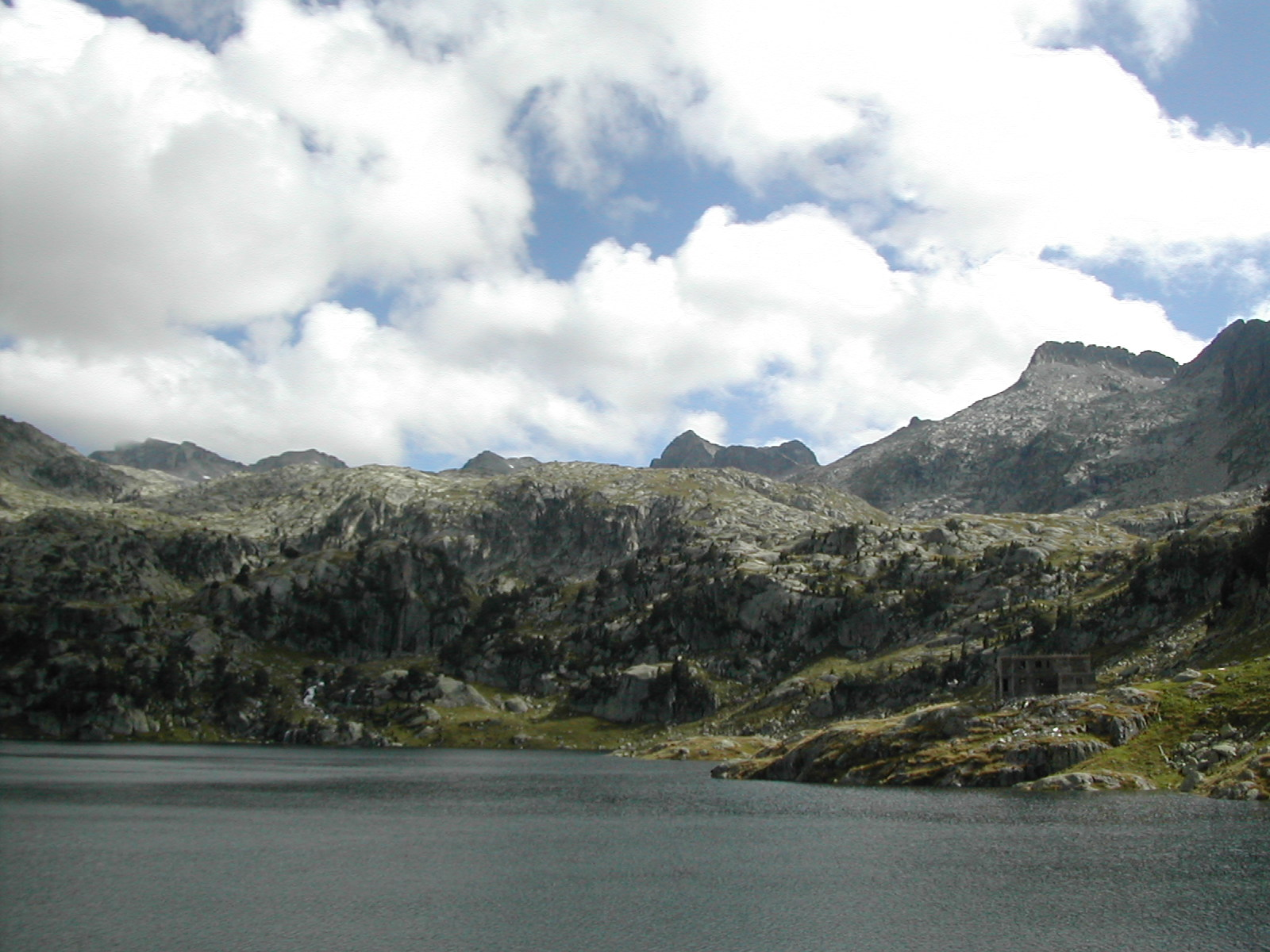 Author: David Gaya Llac major de Colomers is 2.130m high., Catalunya (Espanya) It is located in Aigüestortes i llac de Sant Maurici National Parc in Catalonia, (Spain).